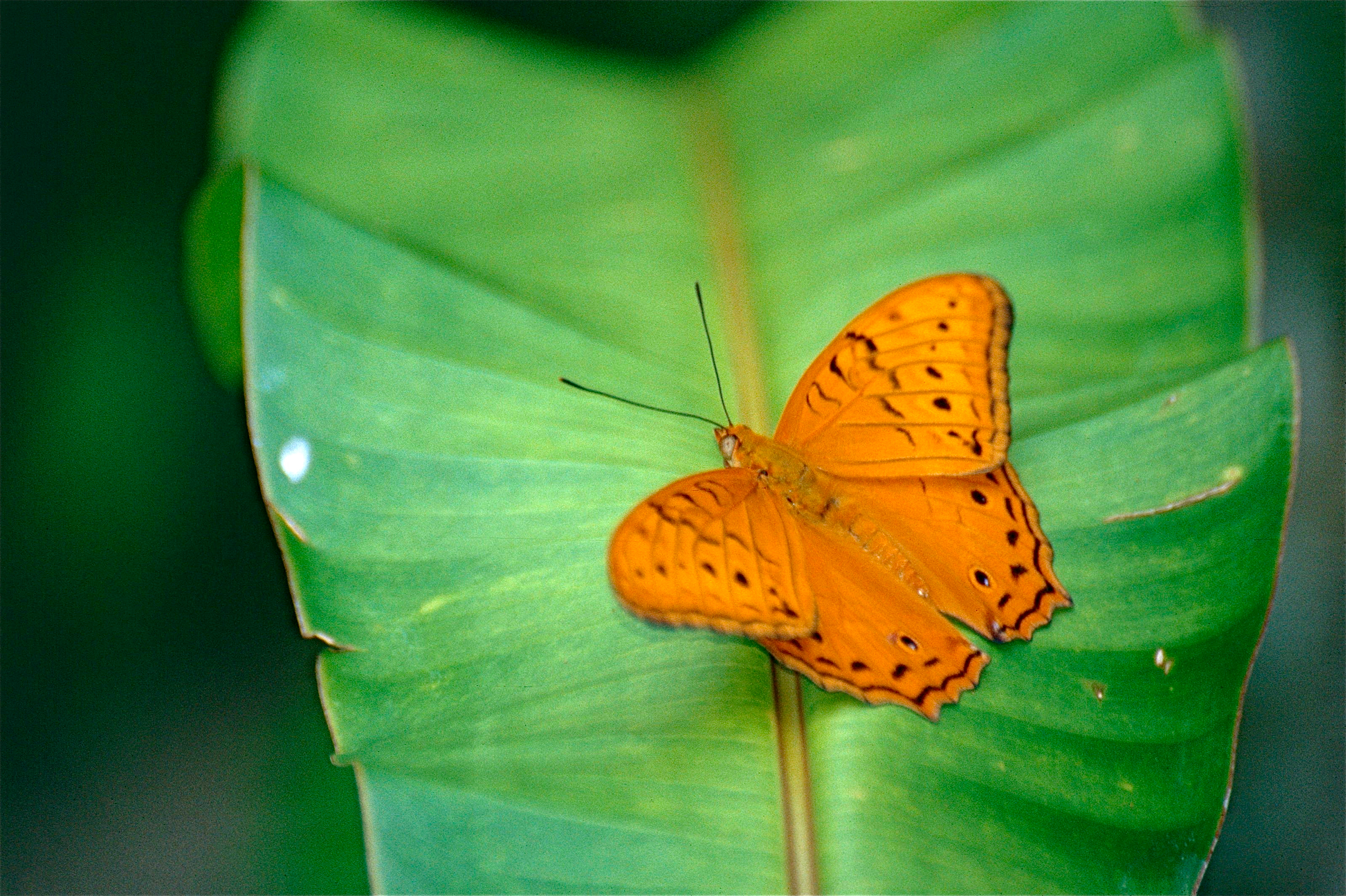 Australian Butterfly Sanctuary, Kuranda, North Queensland, AUSTRALIA Scanned Slide from Nov 2000